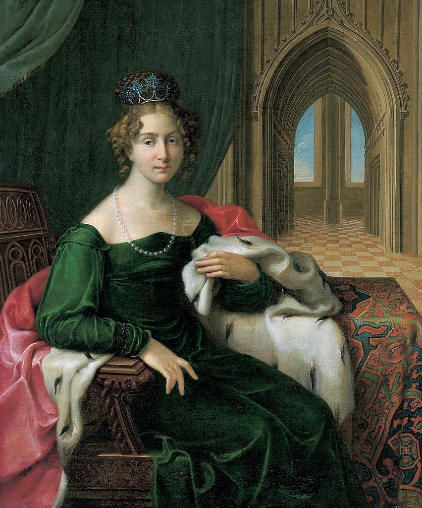 Portrait of Princess Friederike, Duchess of Saxony-Anhalt and Princess of Prussia, daughter of Prince Louis of Prussia and Princess Friederike of Mecklenburg-Strelitz, sister of Queen Louise of Prussia, in a green velvet dress and ermine trimmed cape